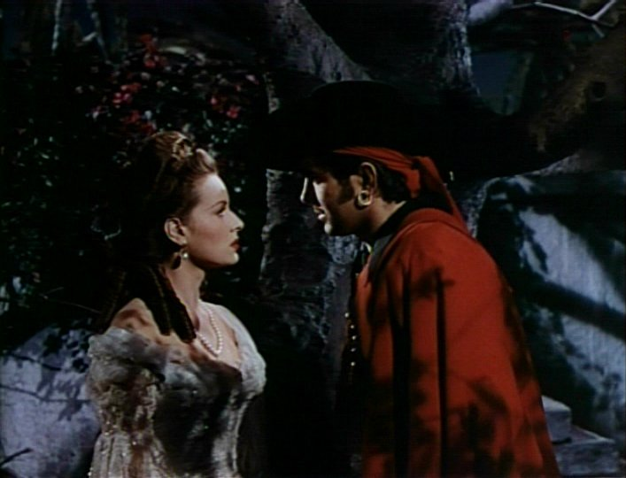 Tyrone Power and Maureen O'Hara in a screenshot from the trailer for the film The Black Swan.